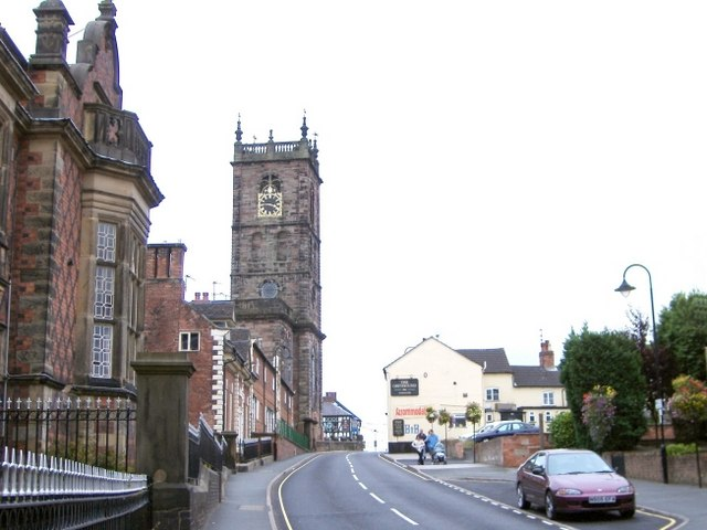 Whitchurch - Bargates